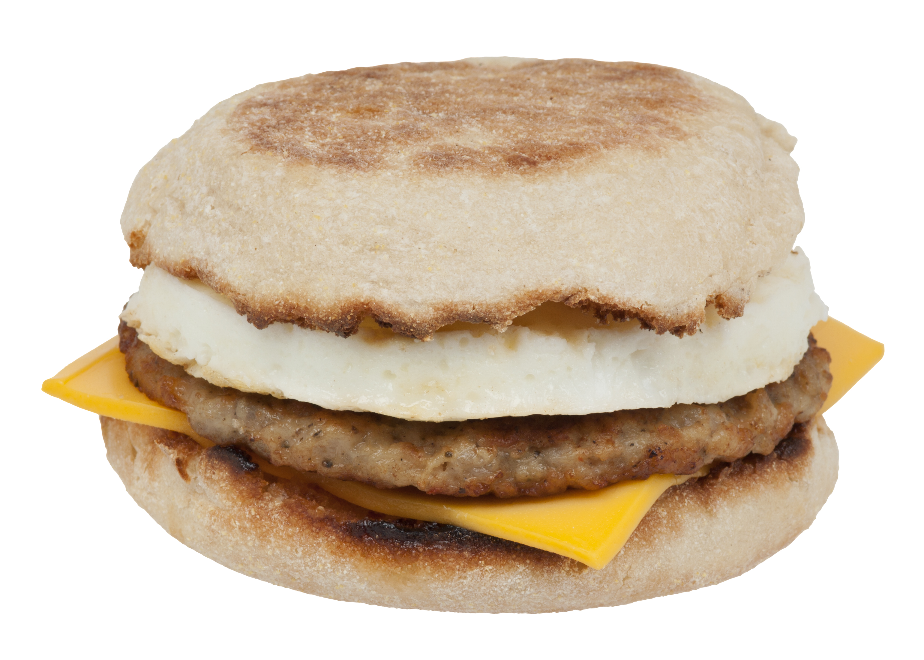 A Sausage Egg McMuffin from McDonald's, as bought in America.